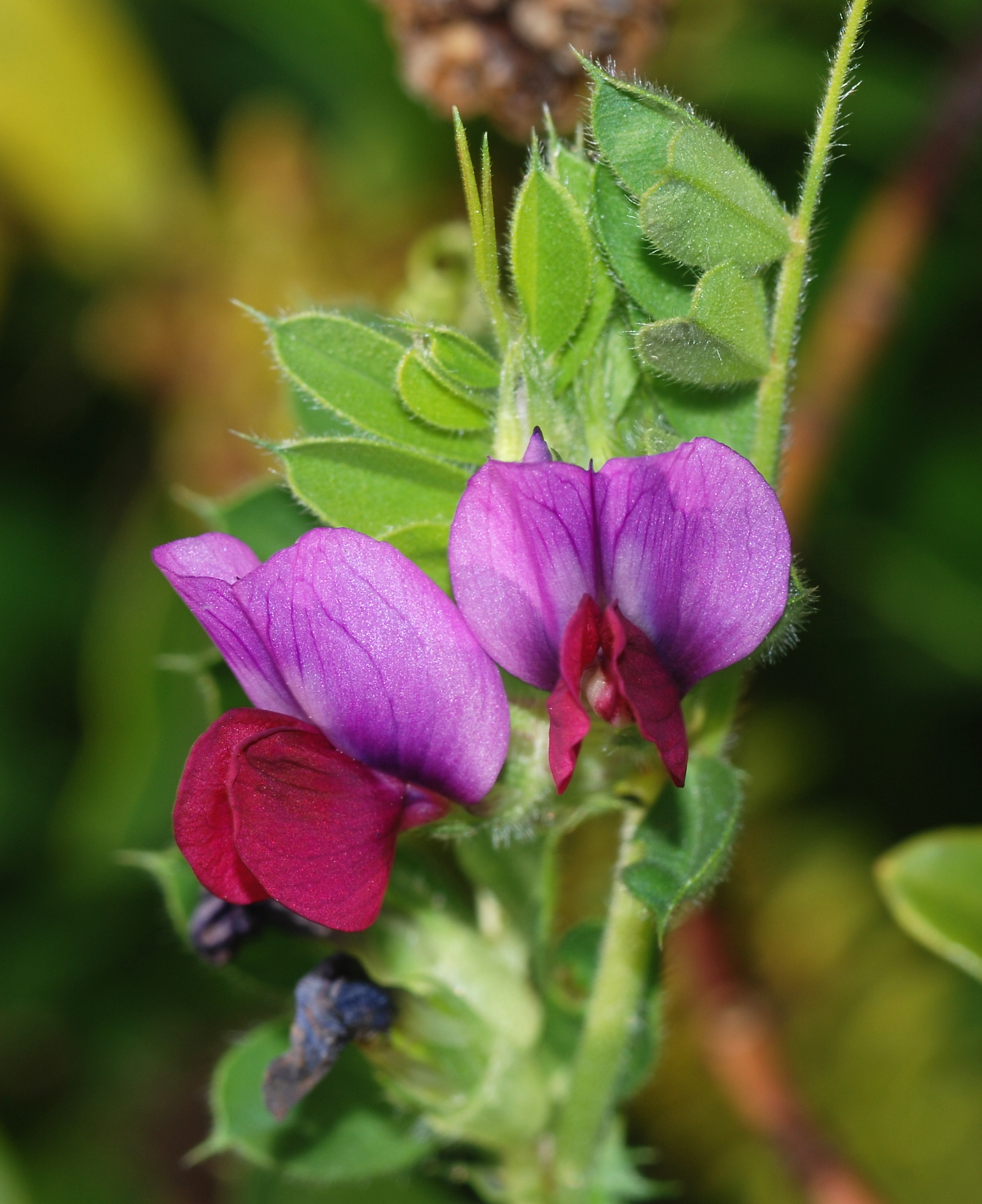 Common Vetch (Vicia sativa)